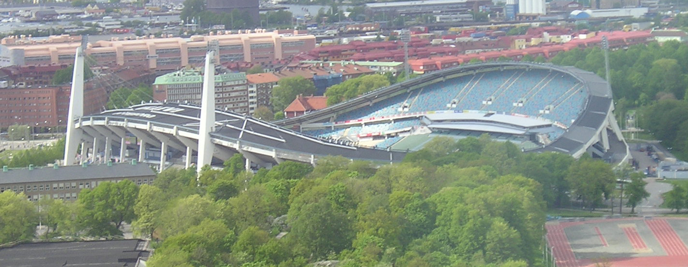 Nya Ullevi soccer stadium, as seen from the Liseberg tower